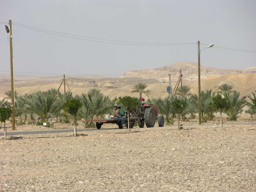 Tzofar